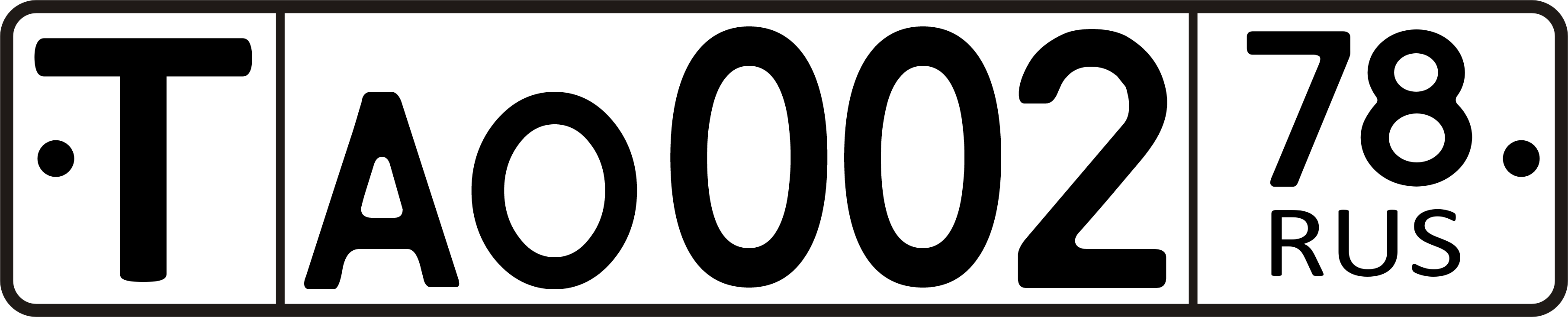 Russian license plate using for exported vehicles.